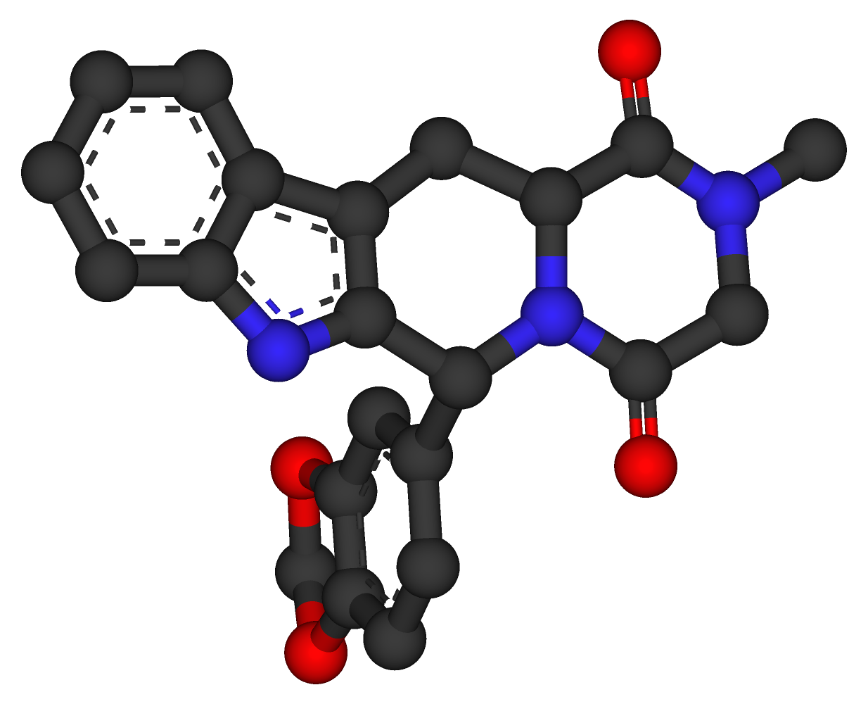 Stick model of tadalafil, as bound to PDE5A. Hydrogen atoms omitted for clarity. Created using PyMOL, Accelrys DS Visualizer Pro 1.7, and GIMP. Optimized with OptiPNG.